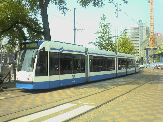 Combino in front of Amsterdam CS.